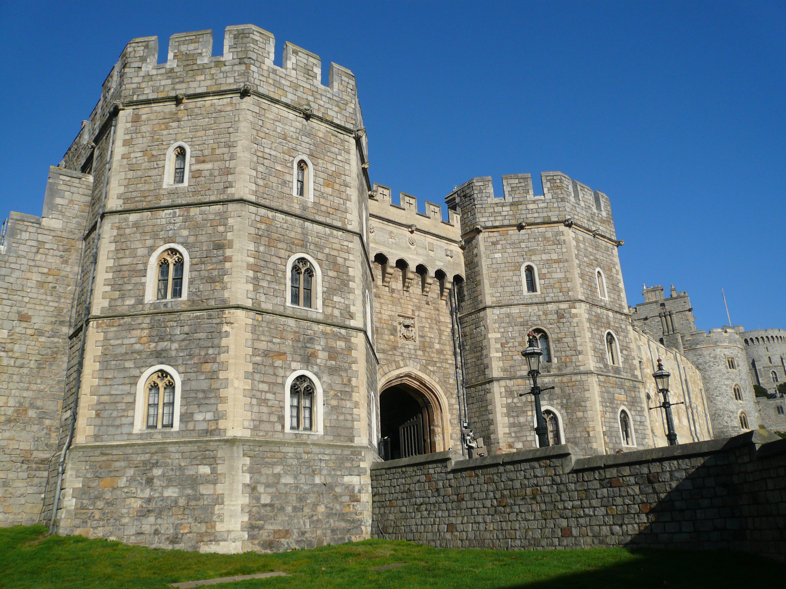 Henry VIII's gatehouse at Windsor Castle